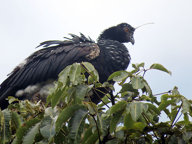 A Horned Screamer near the Amazon River in Colombia.